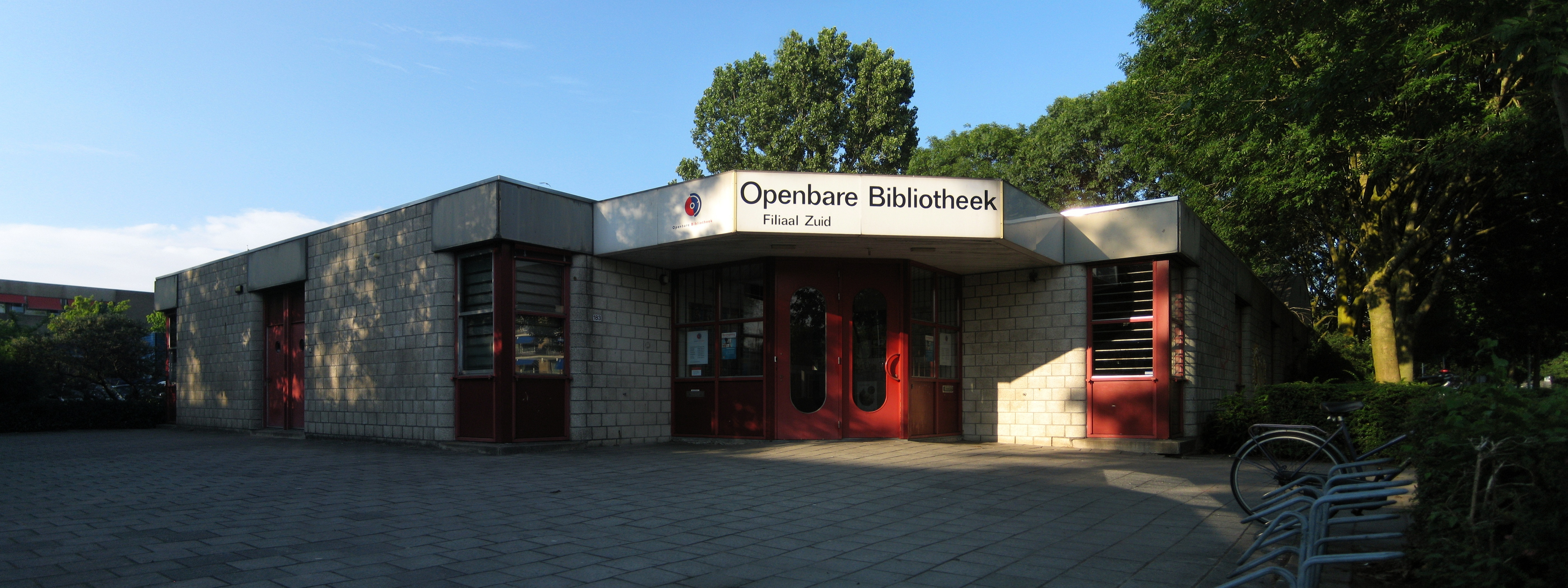 Public library (b. 1984-1985, demolished) in the Dutch city of Groningen.